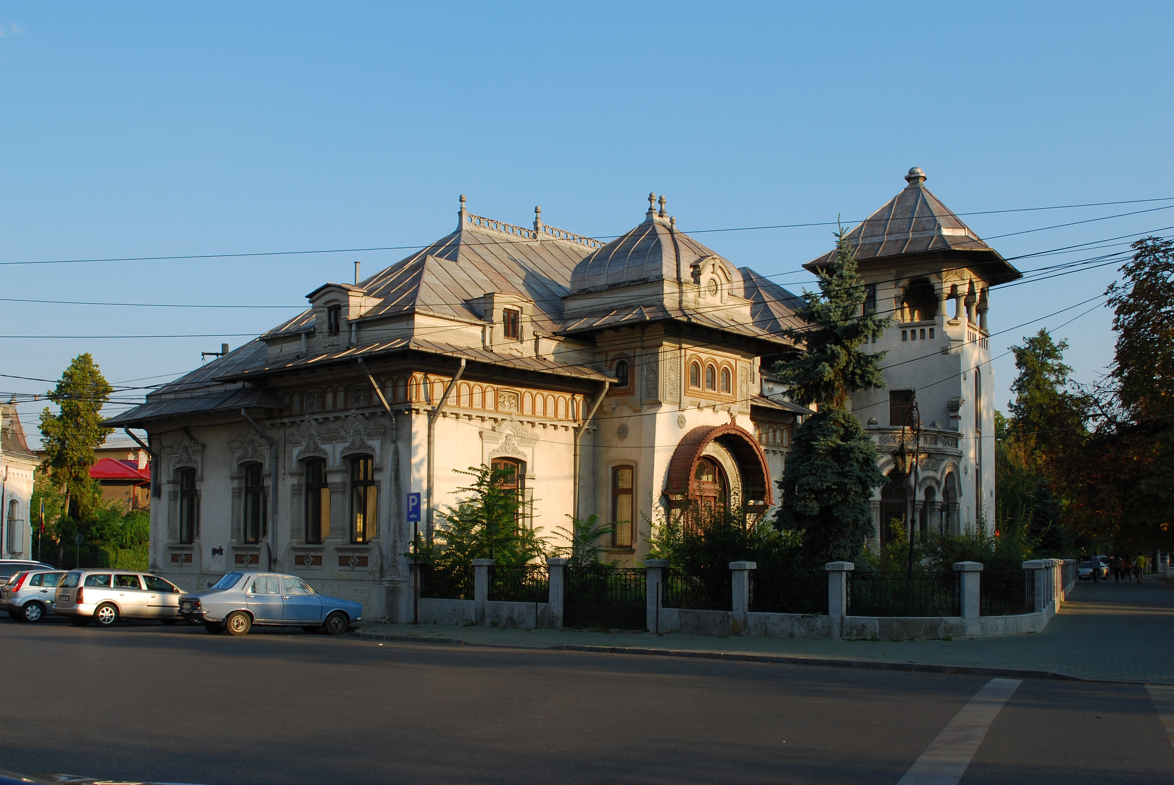 Radu Stanian house in Ploieşti, RomaniaRomână: Casa Radu Stanian din Ploieşti, România